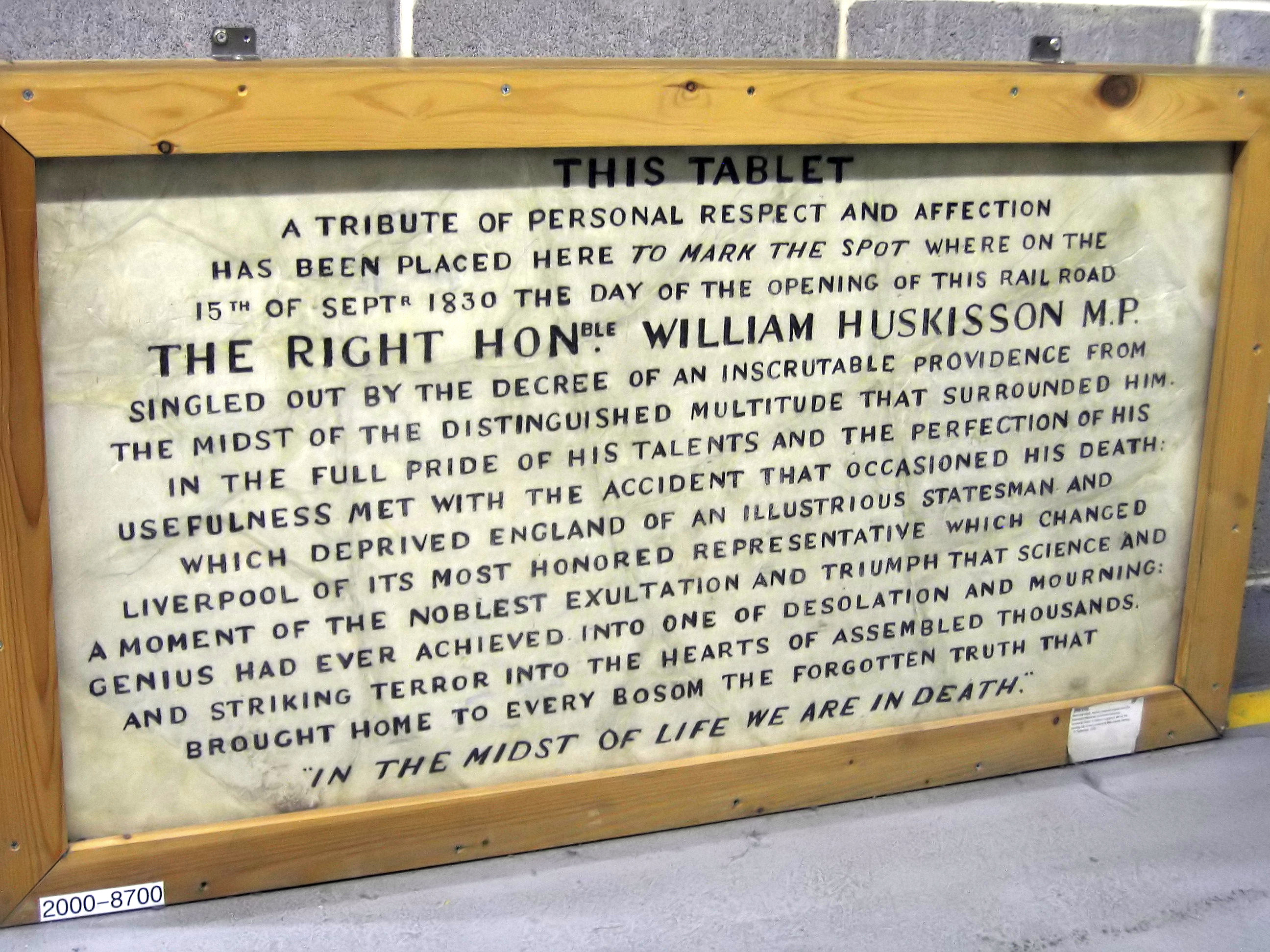 Memorial Plate to William Huskisson: National Railway Museum, York